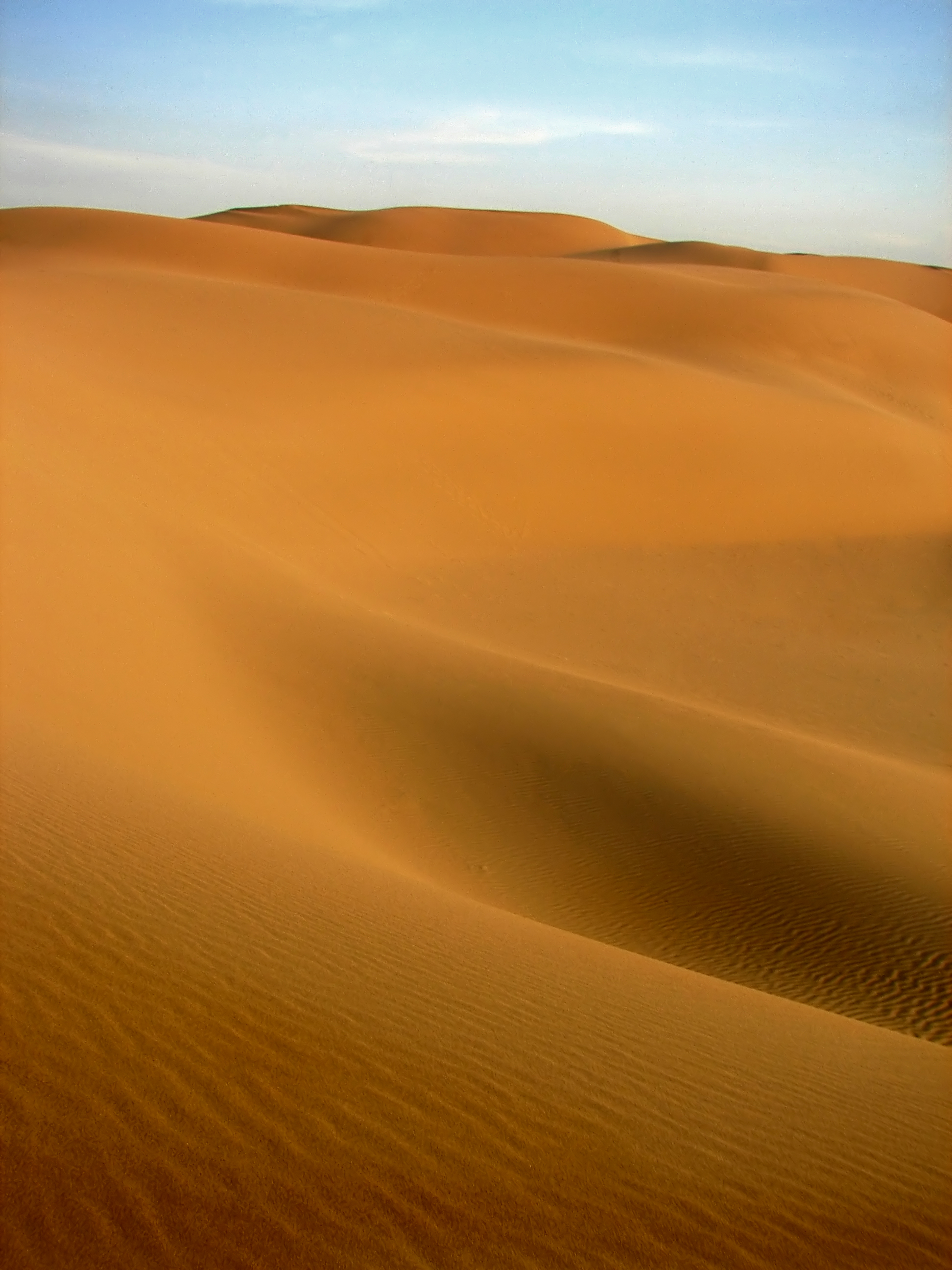 Happy birthday Garry :) Check it's Large On Black! Maranjab dunes, Kavir desert, Kashan, Iran -- Added to Flickr Explore (interestingness) page of 10 June 2007. (top10)